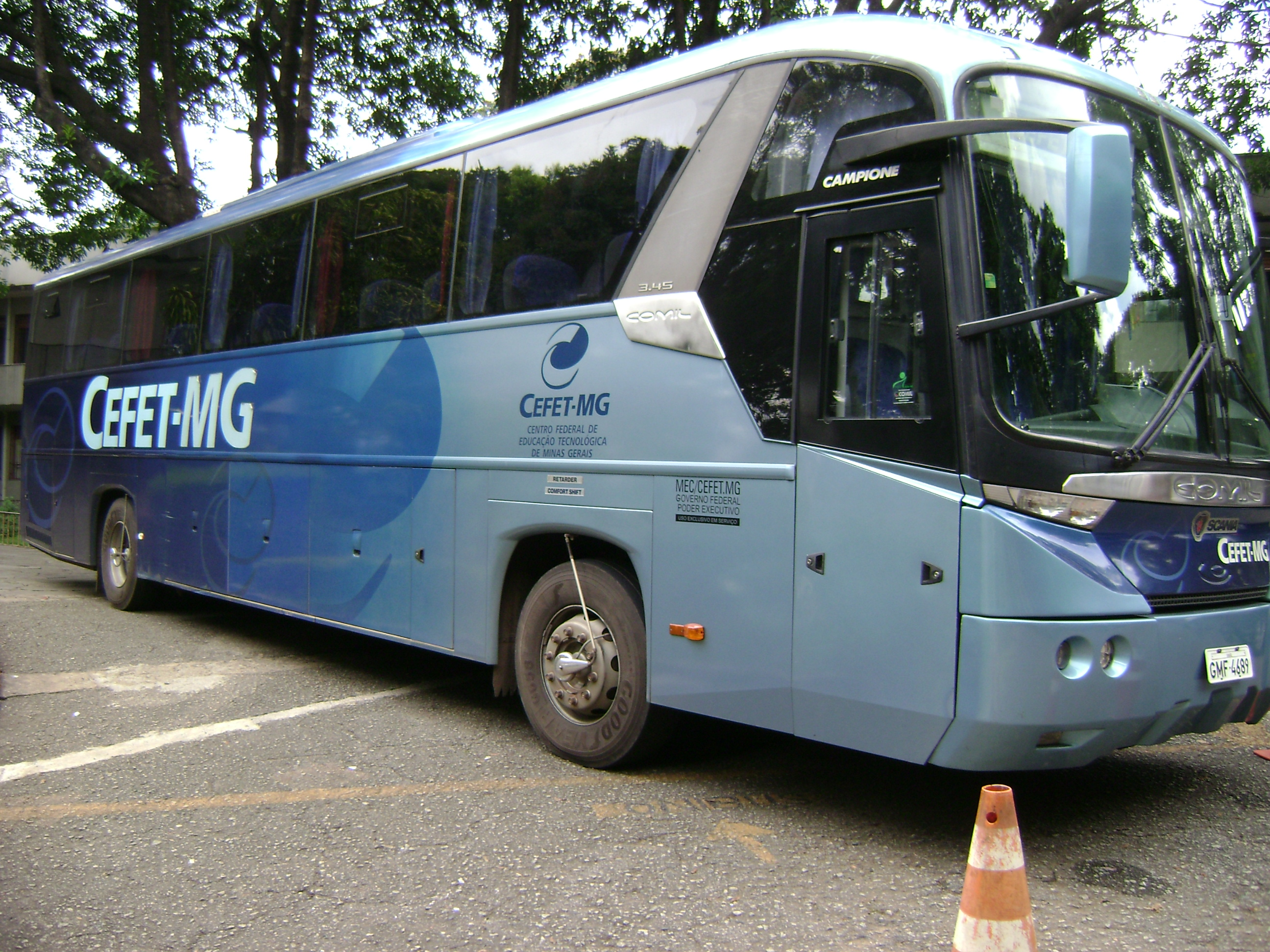 Travel bus of Cefet-MG (called Trovão Azul), the vehicle that makes transports intercampi. Comil Campione 3.45 coach (reg. GMF-4689) with Scania chassis.